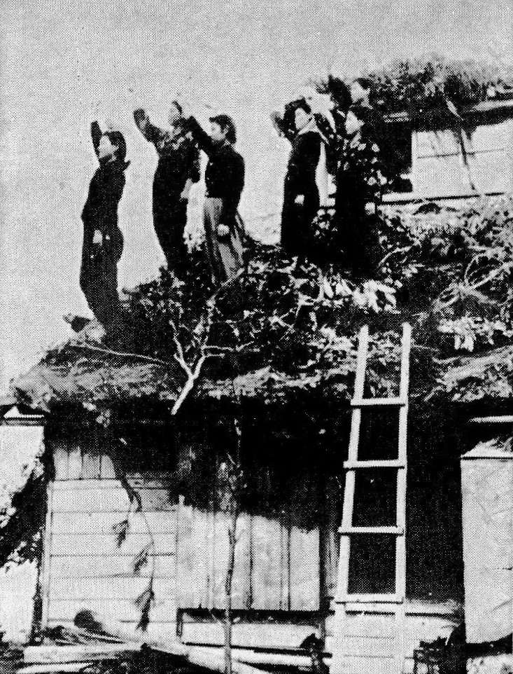 school girl to see off Kamikaze